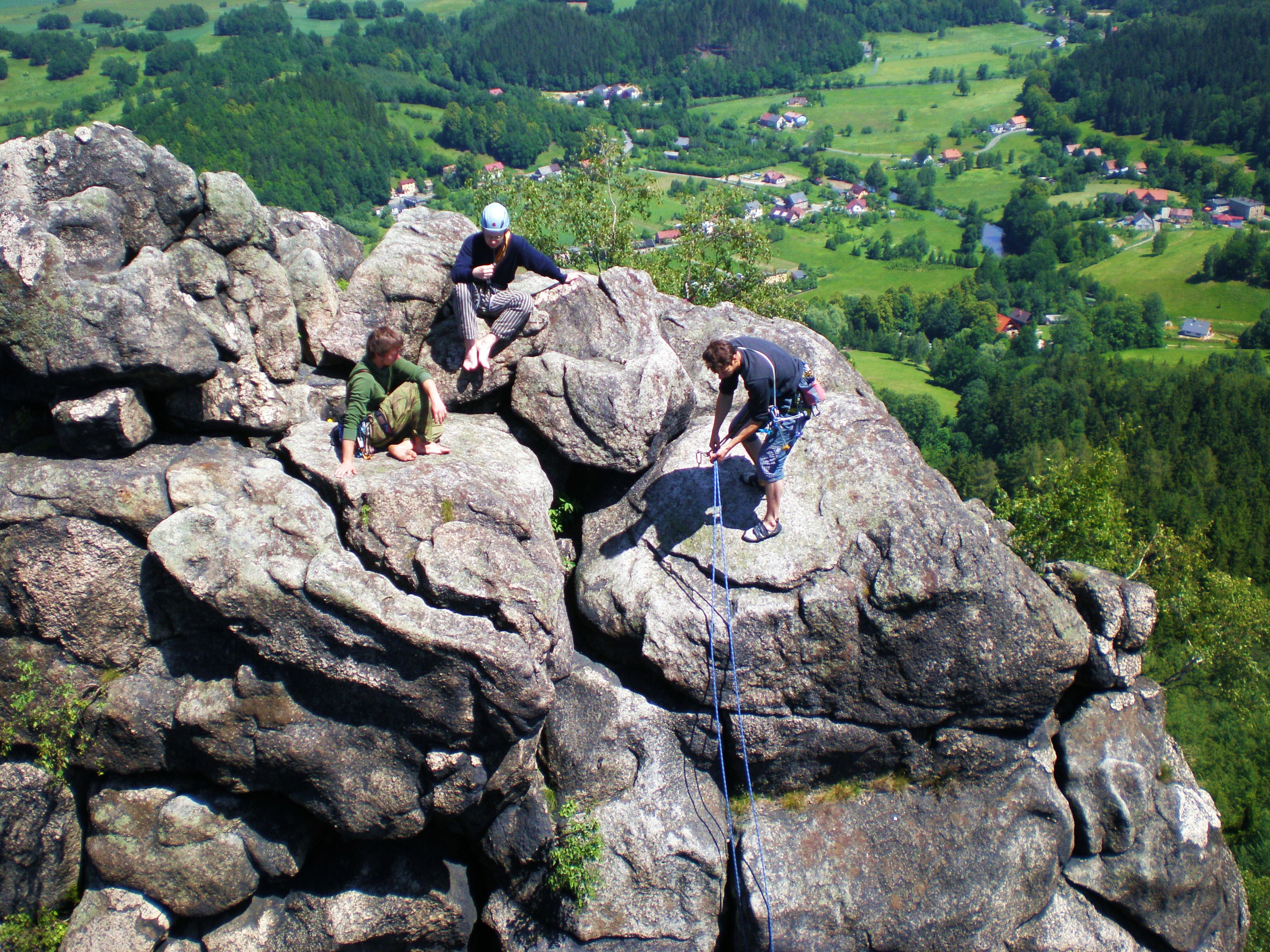 Climbing - Sokolik - Rudawy Janowickie